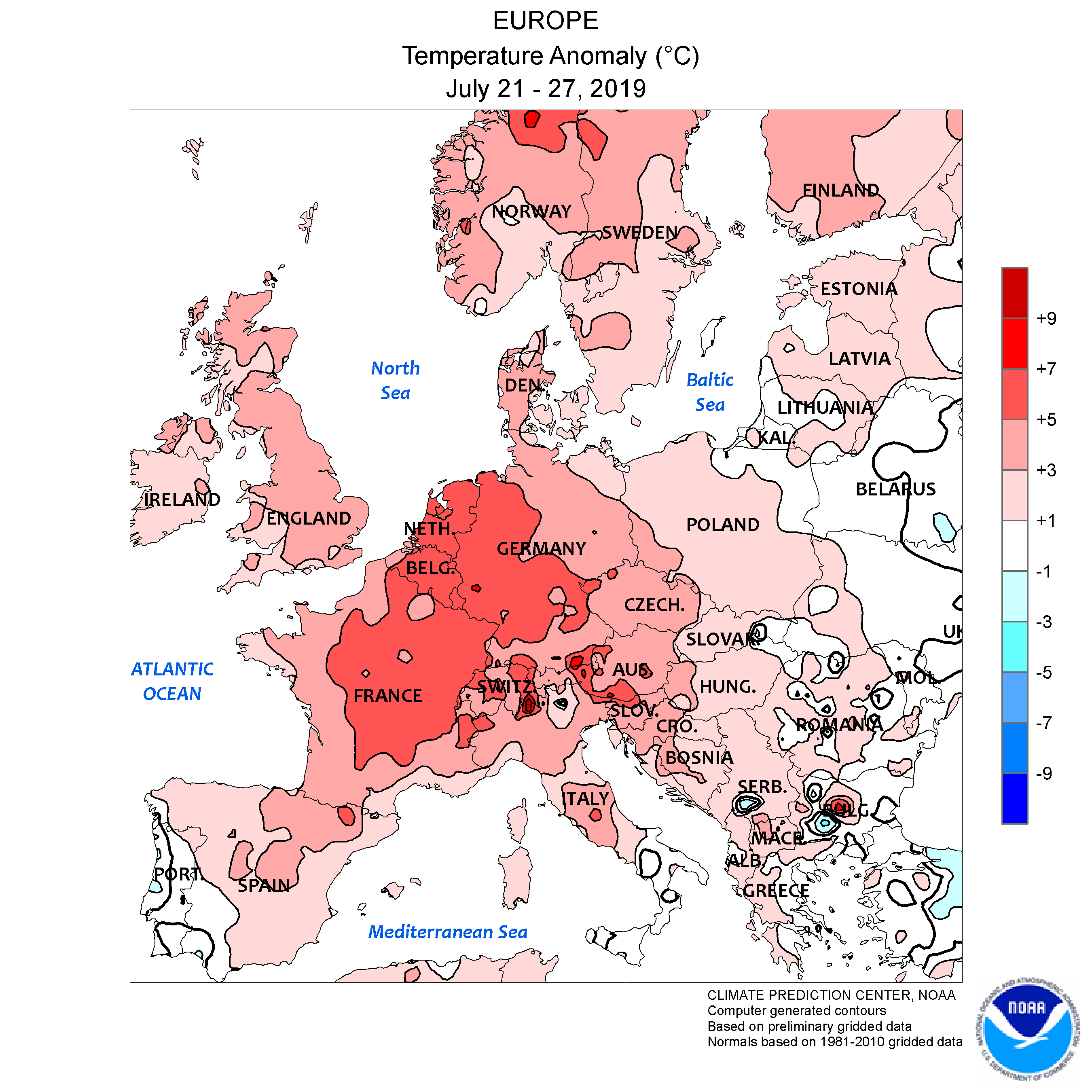 Europe: Temperature anomaly July 21 - 27 2019, computer generated contours, based on preliminary data; Second 2019 European heat wave.